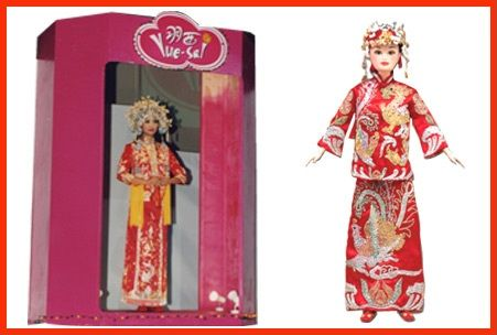 Yue-Sai Kan created a line of dolls with Asian features named "WaWa" which is Chinese for doll.